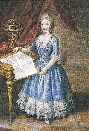 Infanta María Amalia of Spain (1779–1798), daughter of Charles IV